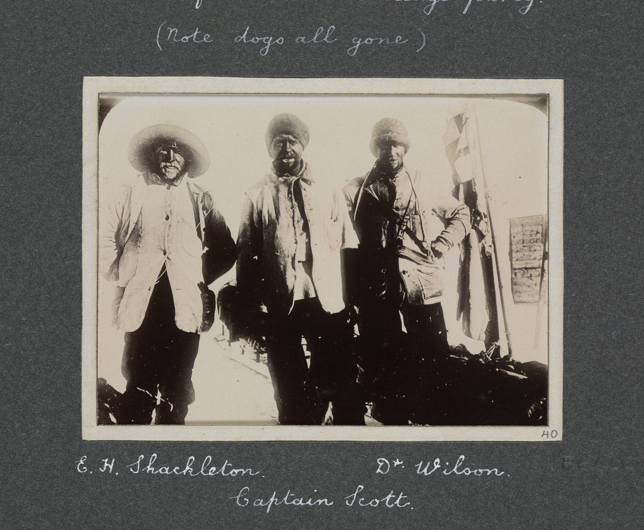 National Antarctic Expedition, 1901-1903 A cloth covered album containing 48 photographic prints relating to the National Antarctic Expedition between 1901 and 1903 when E. H. Shackleton was sent home. The album is inscribed by Shackleton "With kindest wishes from E. H. Shackleton to the Missis Dawson Lambton in Remembrance of the great share they took in helping the Expedition, June 1905." According to a caption in the album the Dawson Lambton's subscribed to the balloon that was taken and used. A few photographs illustrate the balloon and the view from it. There is some element of doubt about the accuracy of some of the captions and images. They may have been compiled in such a way as to provide a narrative, rather than an accurate record as depicted by each image. ALB0346; National Antarctic Expedition, 1901-1903, Plate 40, 'E.H. Shackleton, Captain Scott and Dr Wilson'